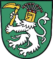 Coat of arms of Haynrode